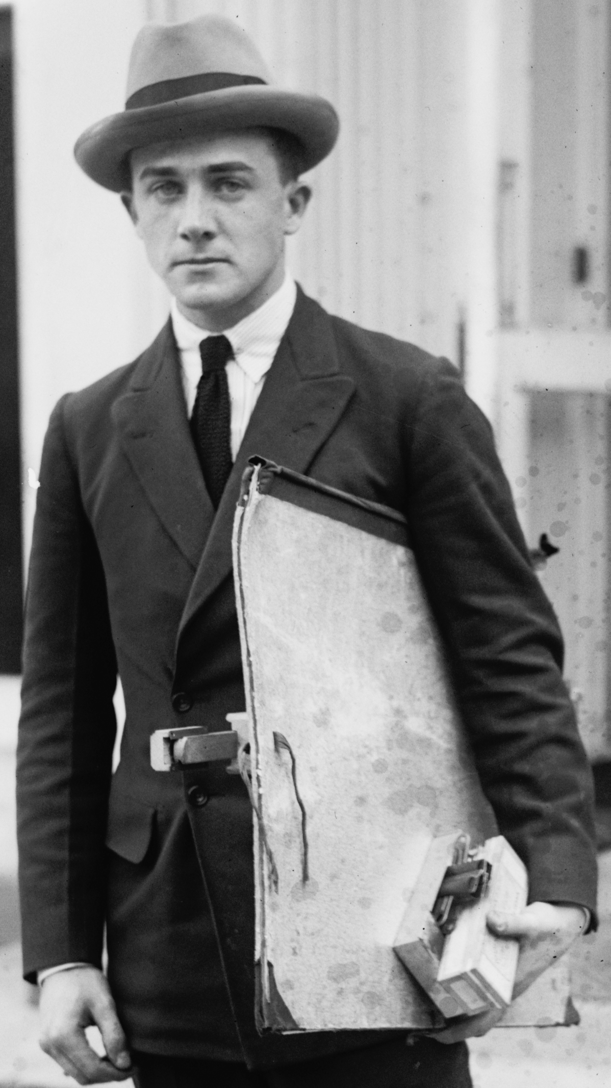 English society portrait painter Simon Elwes (1902-1975)